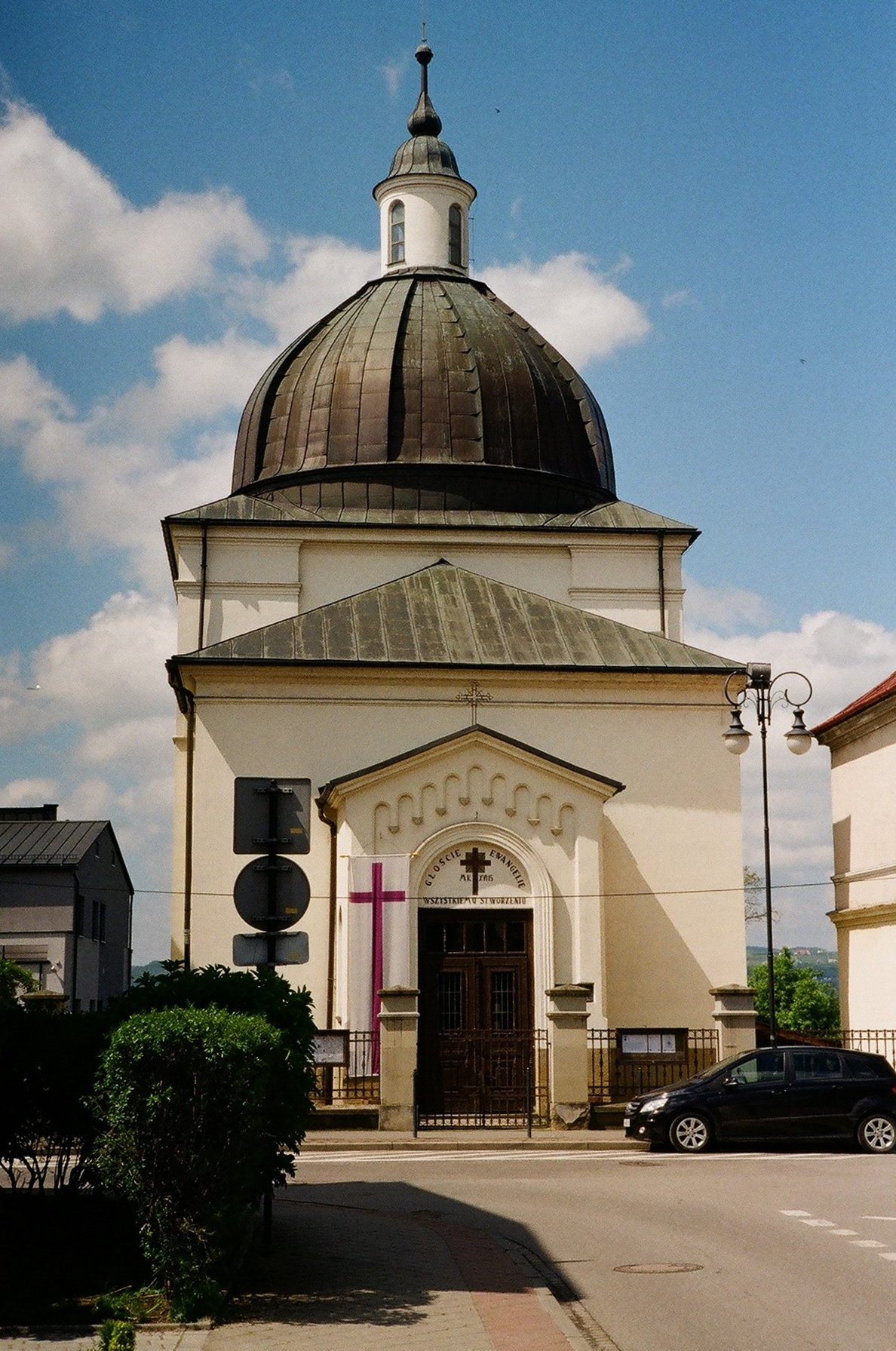 Lutheran Church in Nowy Sącz